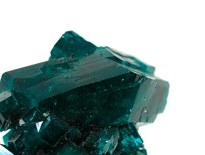 Dioptase Locality: Tsumeb, Otjikoto (Oshikoto) Region, Namibia (Locality at ) Size: thumbnail, 3.1 x 2.3 x 1.8 cm Dioptase A killer toenail featuring a 2.25 x 1 x 1 cm dioptase crystal perched atop a natural pedestal. No damage, this is pristine! The aesthetics are incredible. Would trim slightly to a full thumbnail, as well...